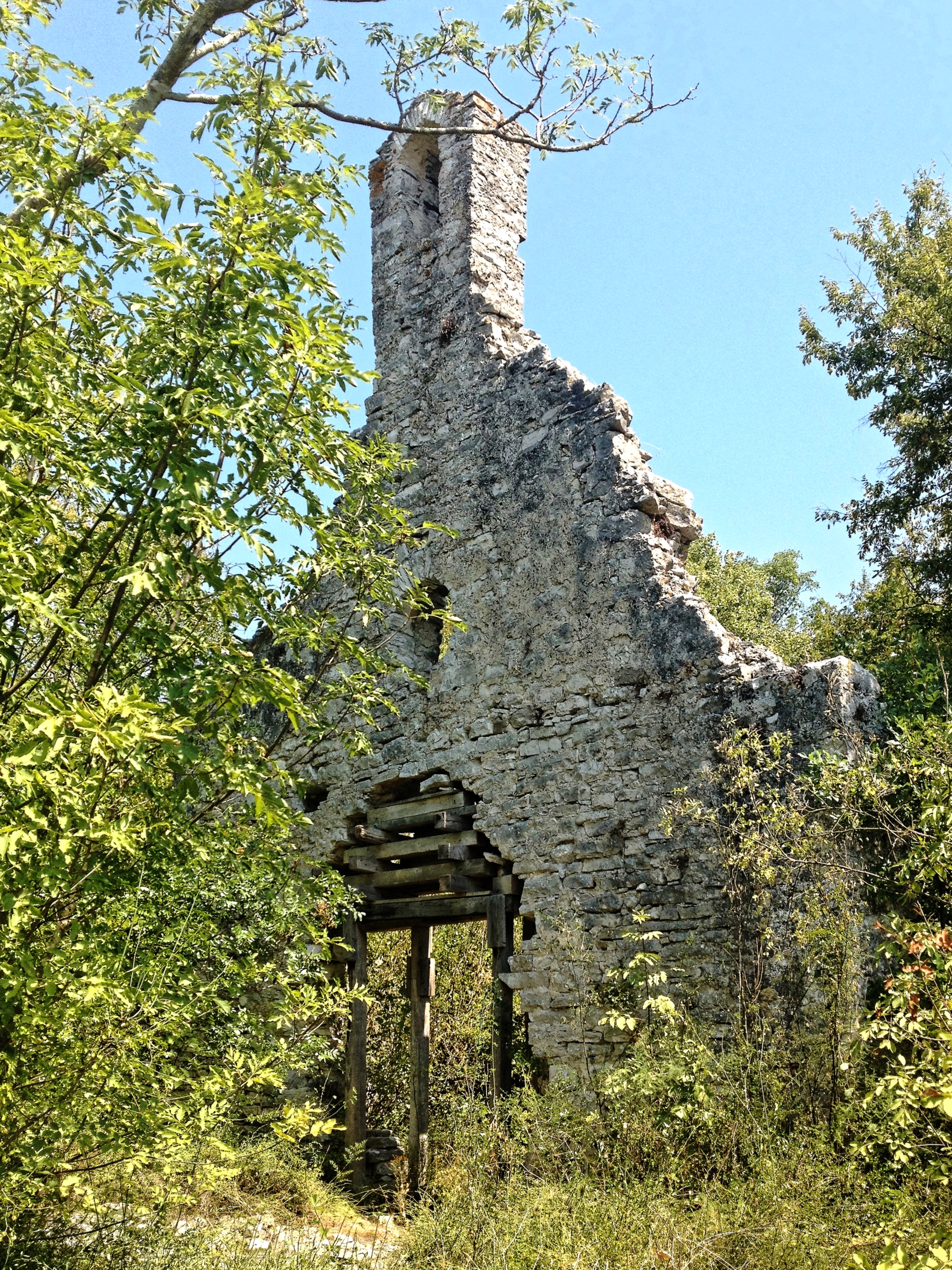 Ruin of the church of the historic castle Sv. Juraj (St. George) in Istria